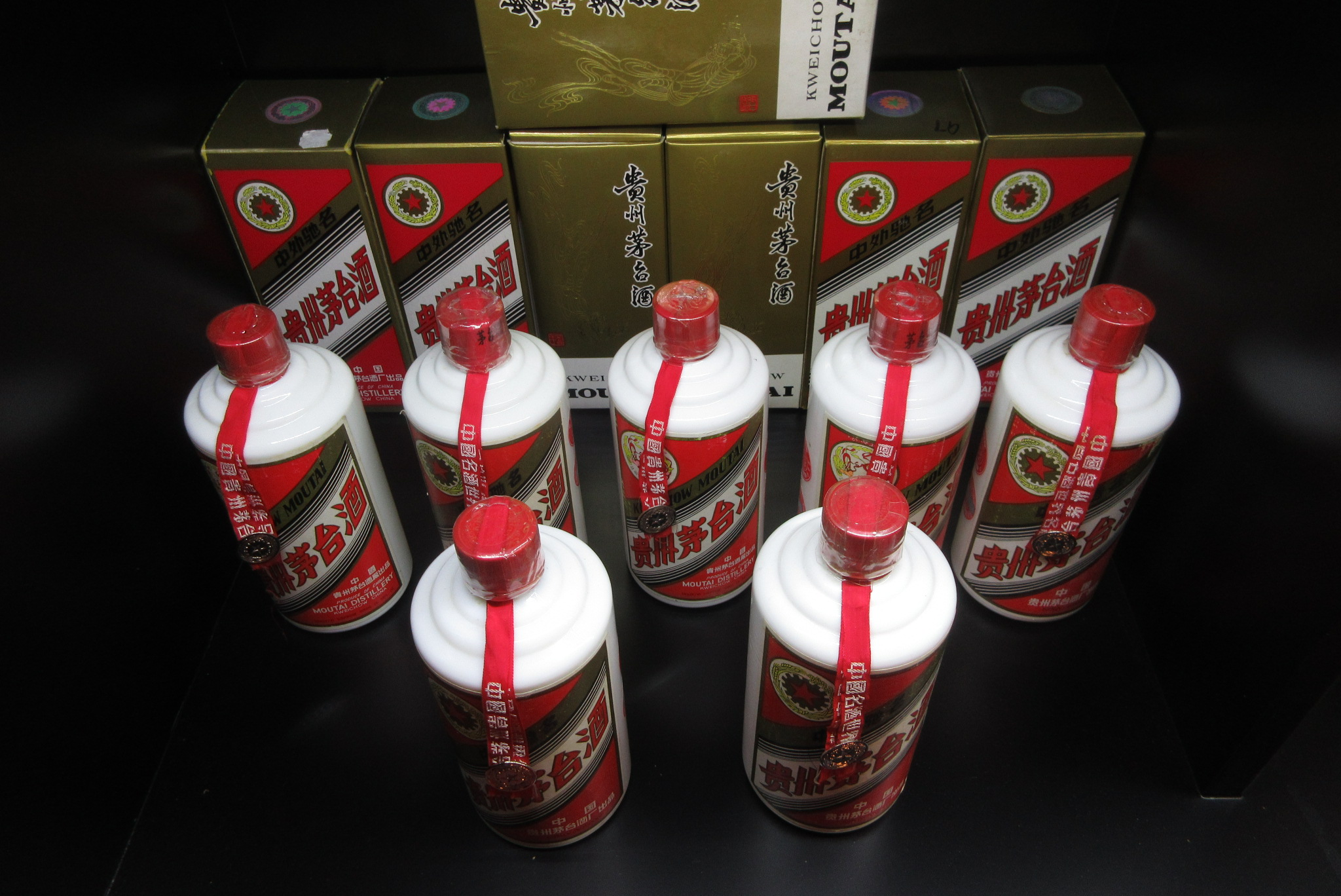 HK Wan Chai North 君悅酒店 Grand Hyatt Hotel 保利集團 Poly Auction Preview exhibition in September 2017